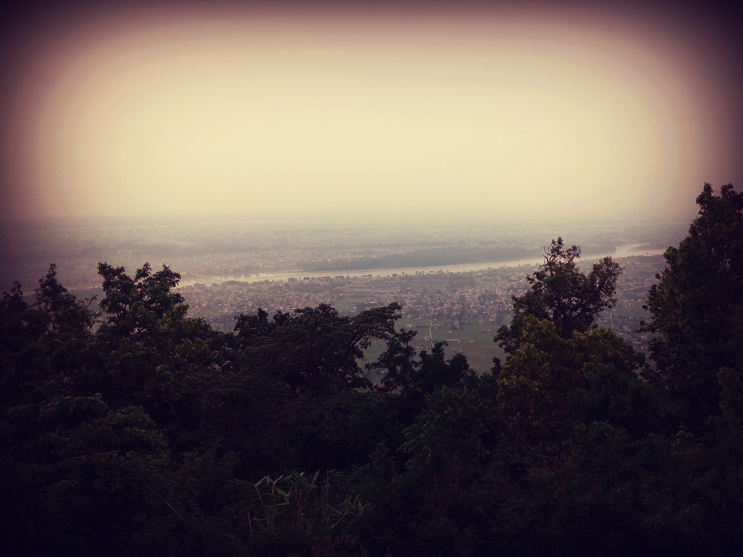 View of Gaindakot and Bharatpur from Hills of Maula Kalika Temple